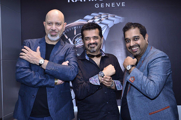 Shankar Mahadevan, Ehsaan Noorani and Loy Mendonsa at Raymond Weil Store launch in Mumbai